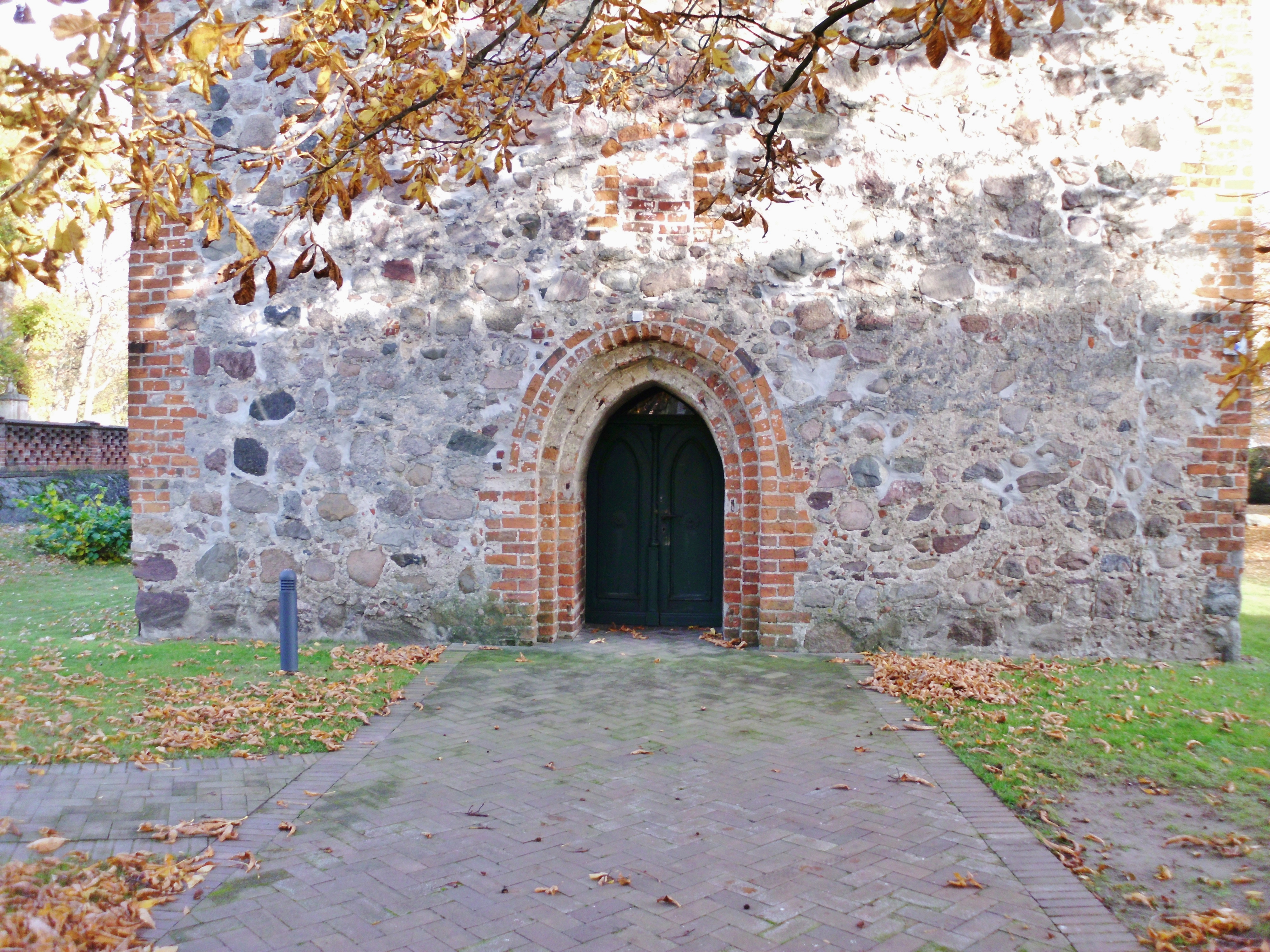 Western portal of church in Lichterfelde, Schorfheide municipality, Barnim district, Brandenburg state, Germany